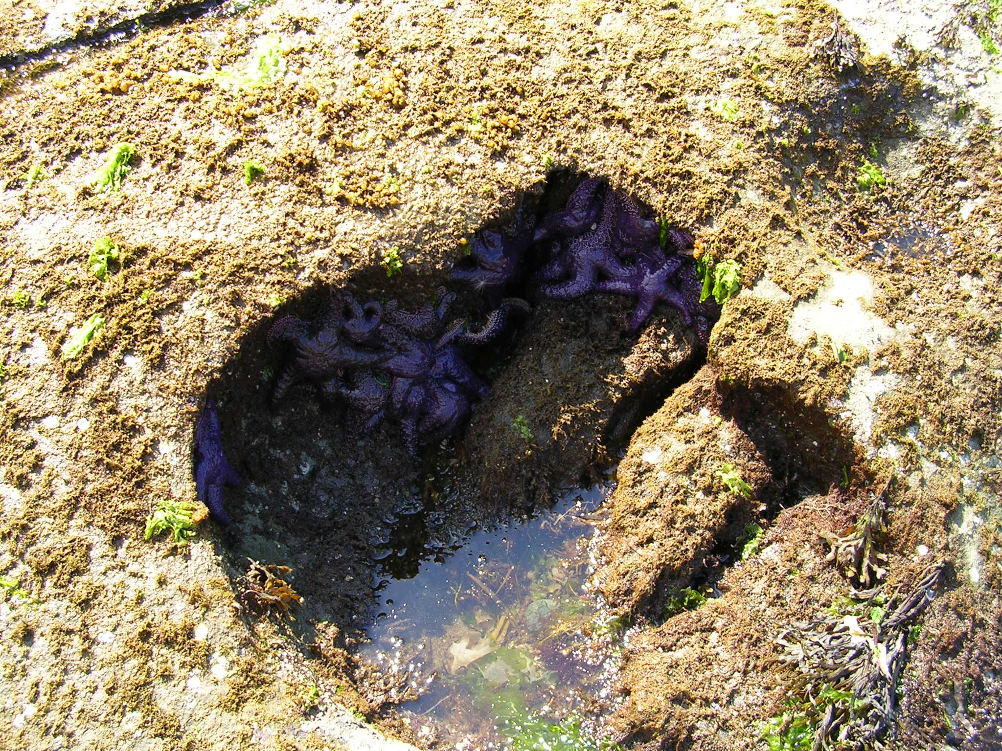 A tidepool on Gabriola Island, British Columbia in 2004.